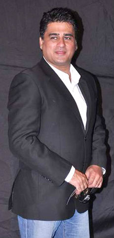 colors indian telly awards